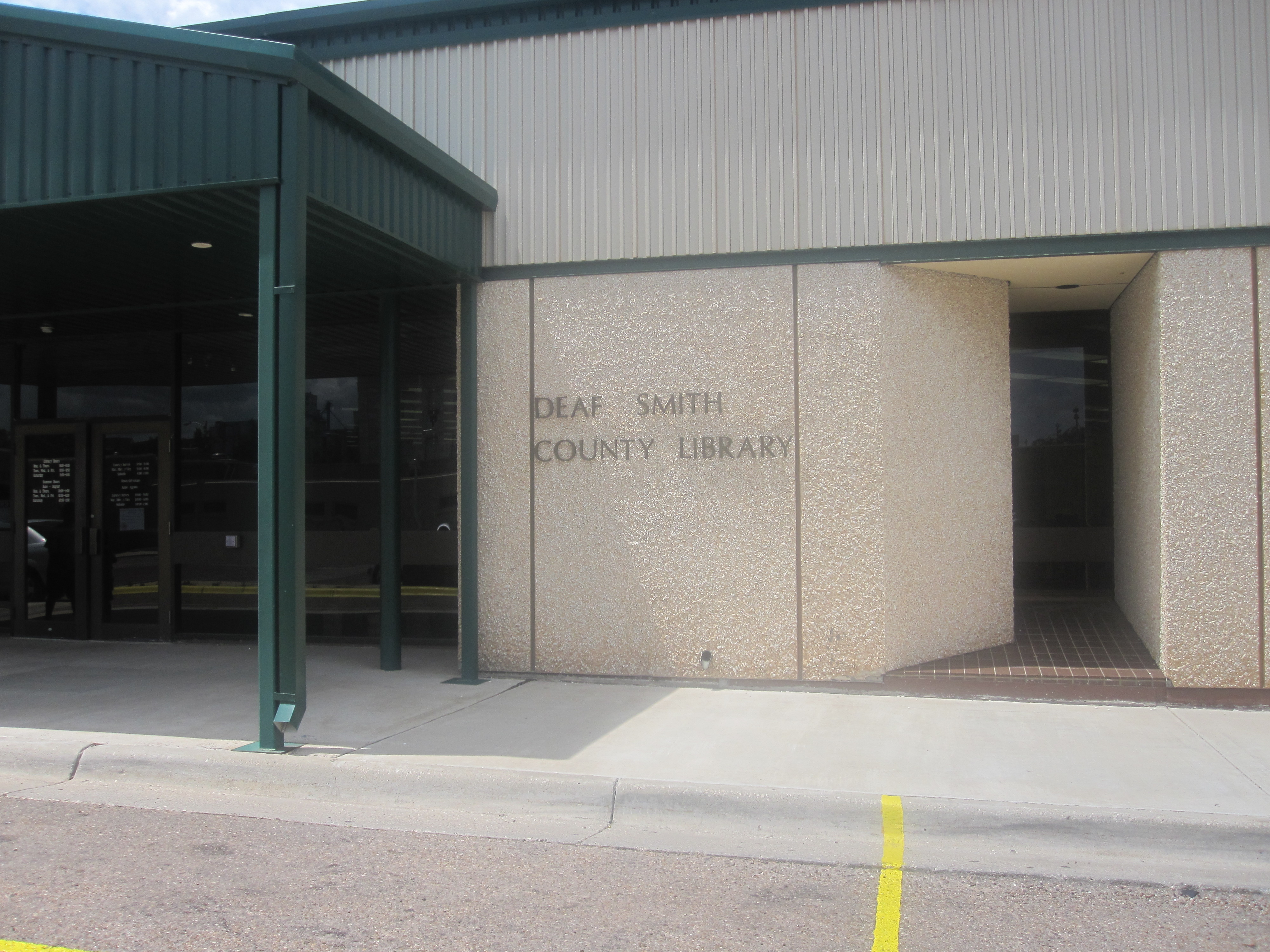 I took photo with Canon camera in Hereford, TX.